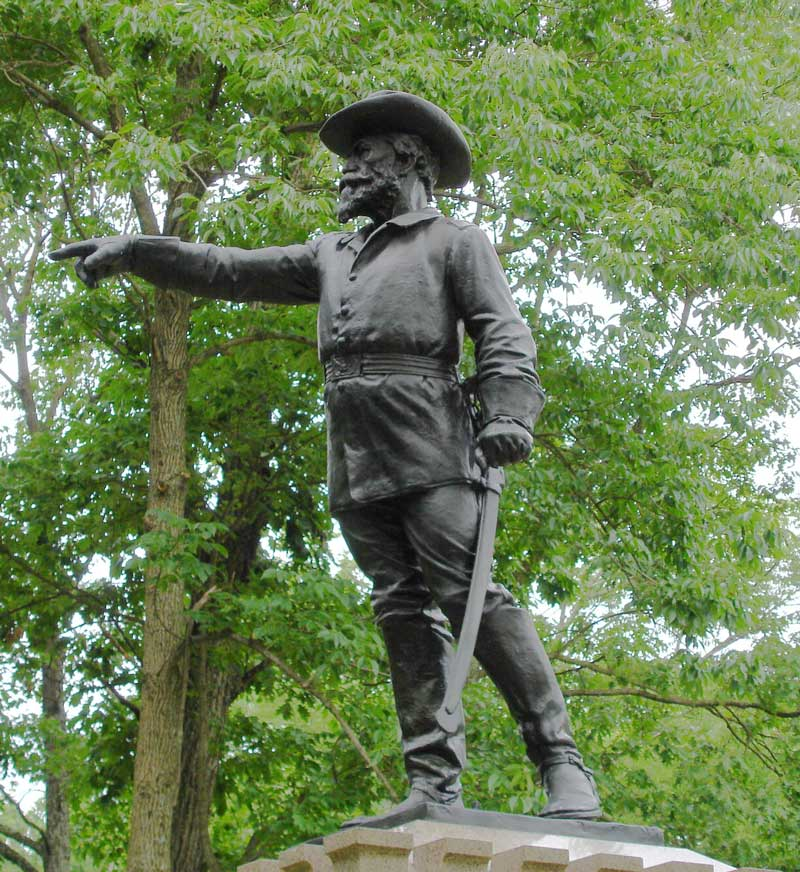 George Sears Greene monument at Gettysburg National Military Park, 2005. It was dedicated on September 26, 1906 and cost $6,863.00. The sculptor was Roland Hinton Perry (1870-1941).